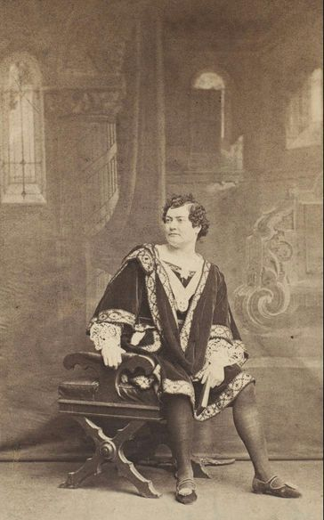 Carte de visite photograph of actress Alice Marriott (1824-1900), as Hamlet, probably at Sadlers Wells Theatre, London.